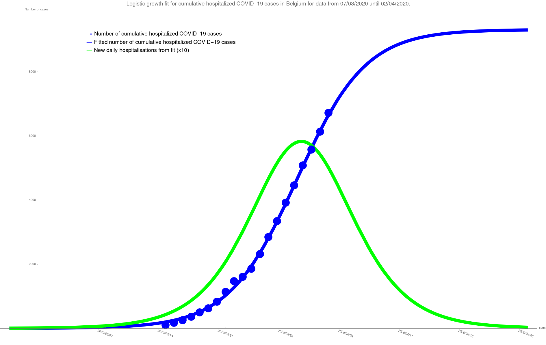 Logistic growth model fit for hospitalized COVID-19 cases in Belgium for data from 14/03/2020 until 02/04/2020. The exponential initial phase has a growth rate of 25.1% and the total number of hospitalized cases stabilises at 9317.